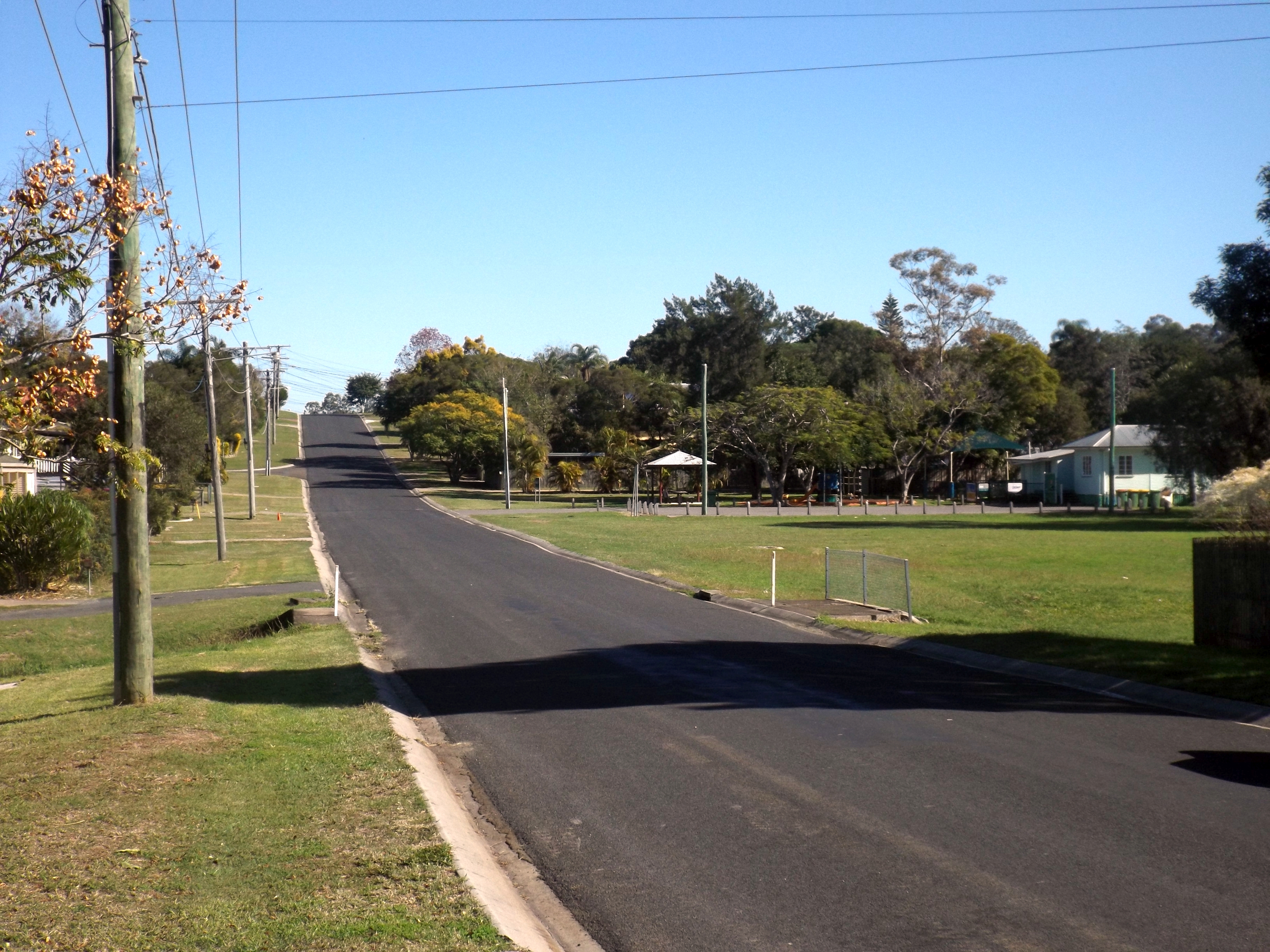 Photo of Cedar Road at Redbank Plains in City of Ipswich, Queensland, Australia.